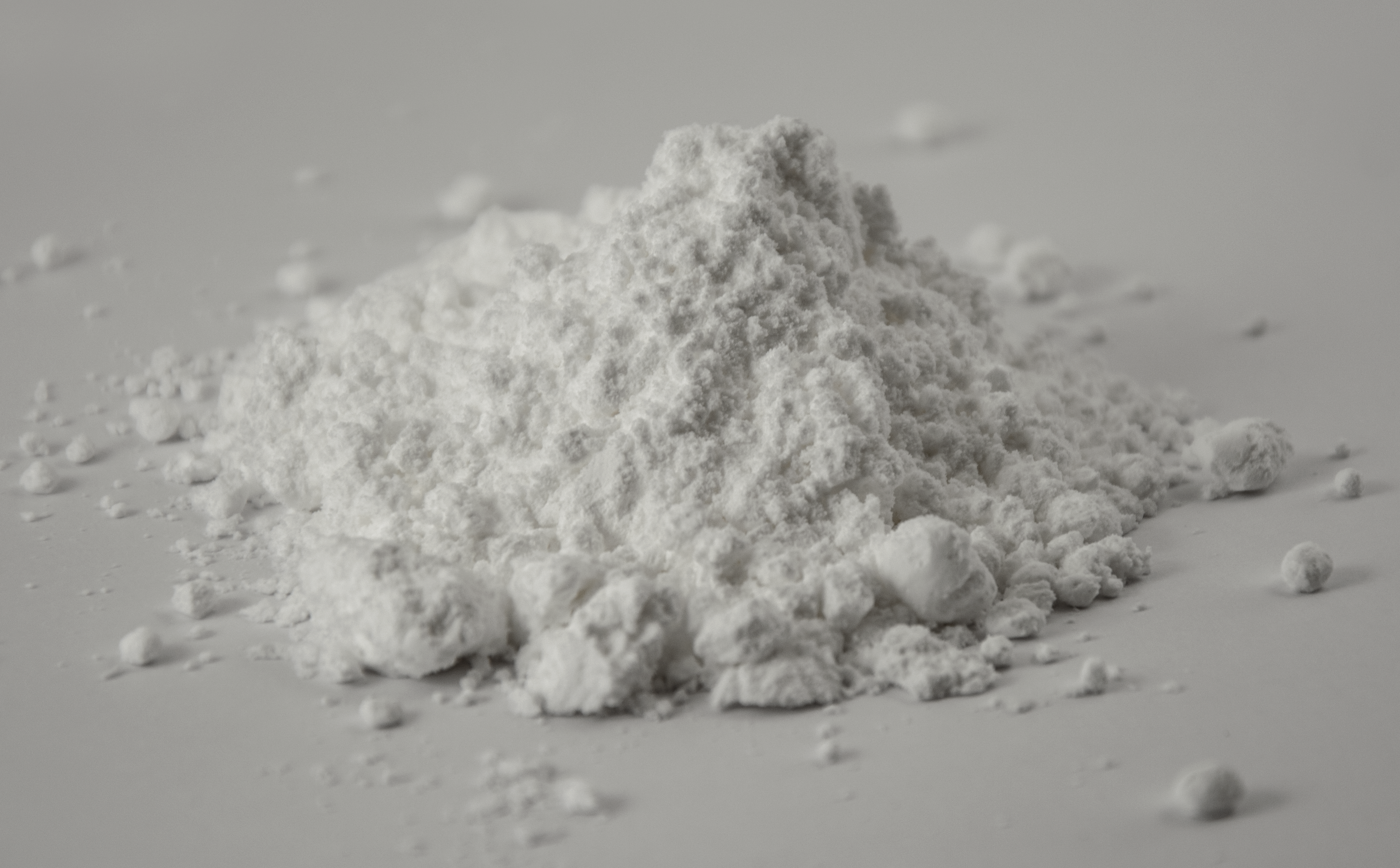 Unsifted powdered sugar, close-up.